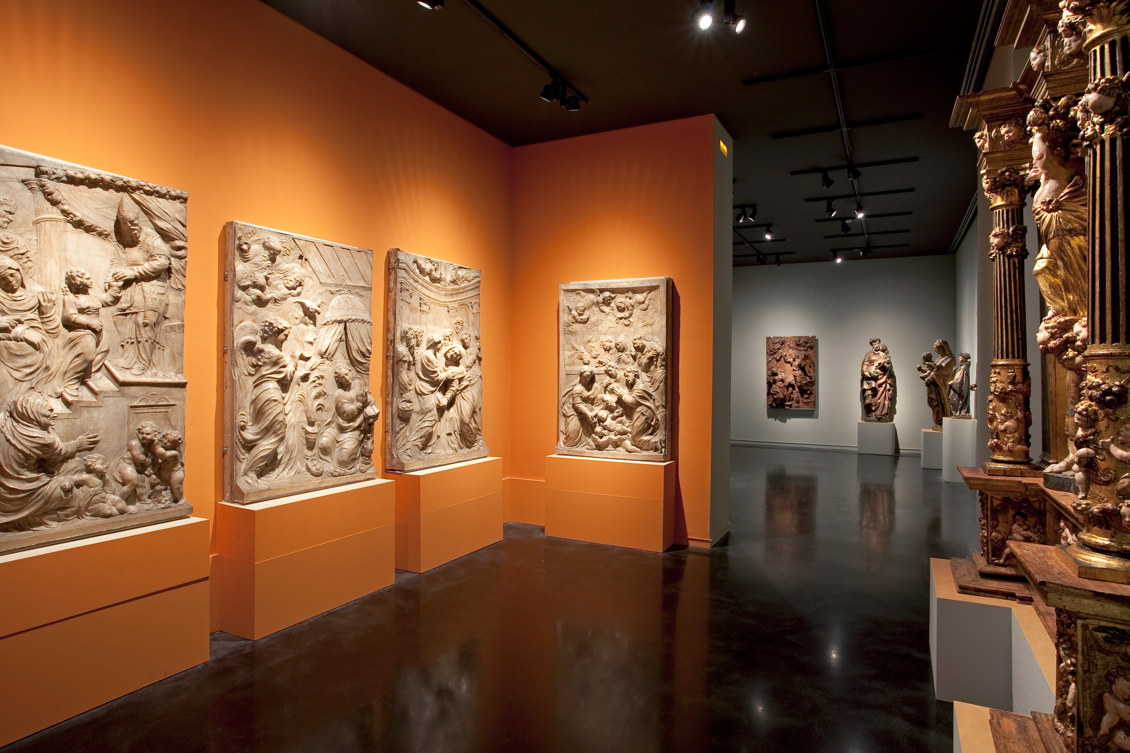 Sculpture Hall Museu Frederic Marès